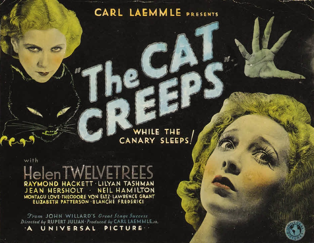 This is a title lobby card for The Cat Creeps (1930).